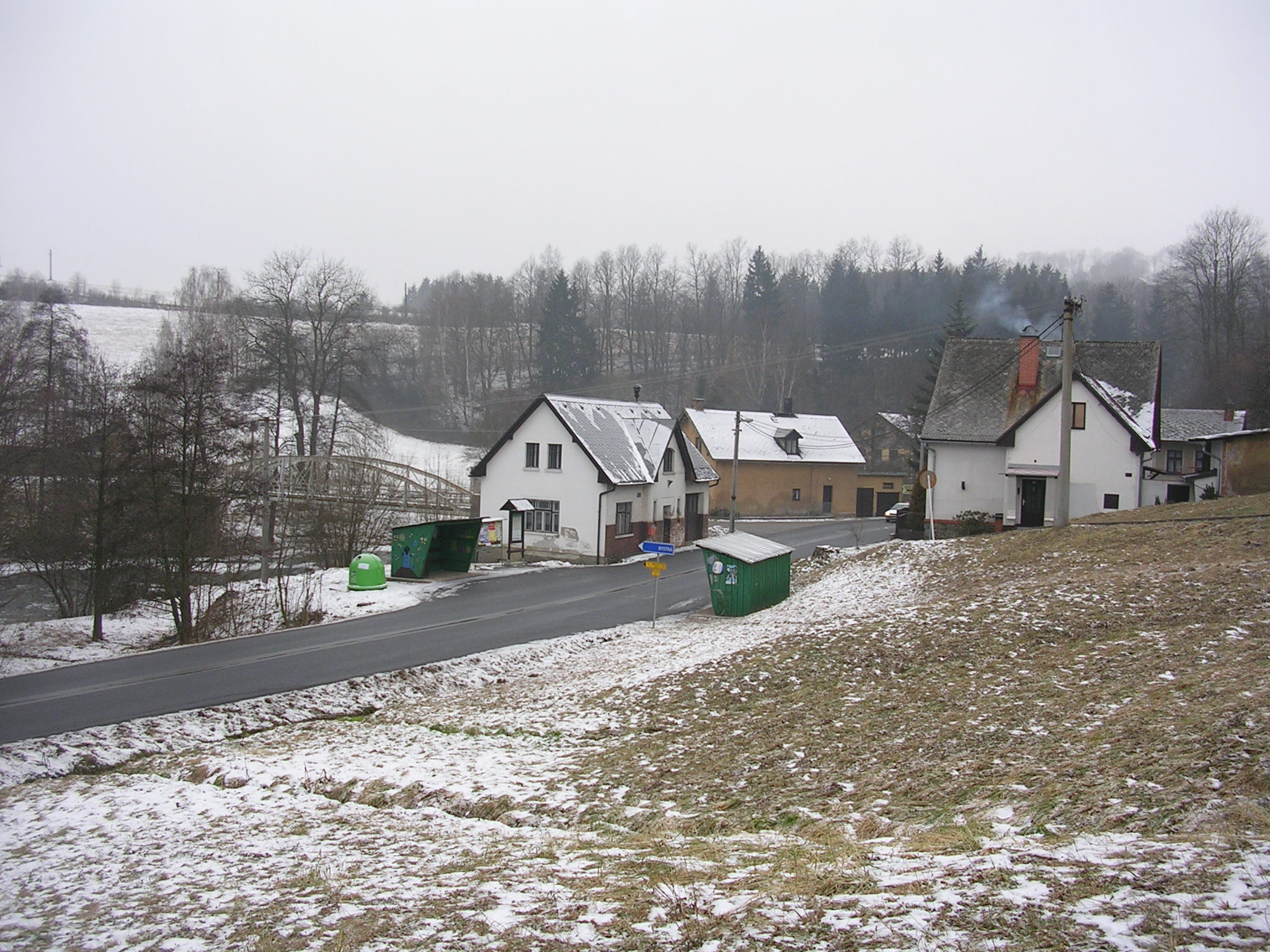 Háje nad Jizerou-Loukov, the Czech Republic.